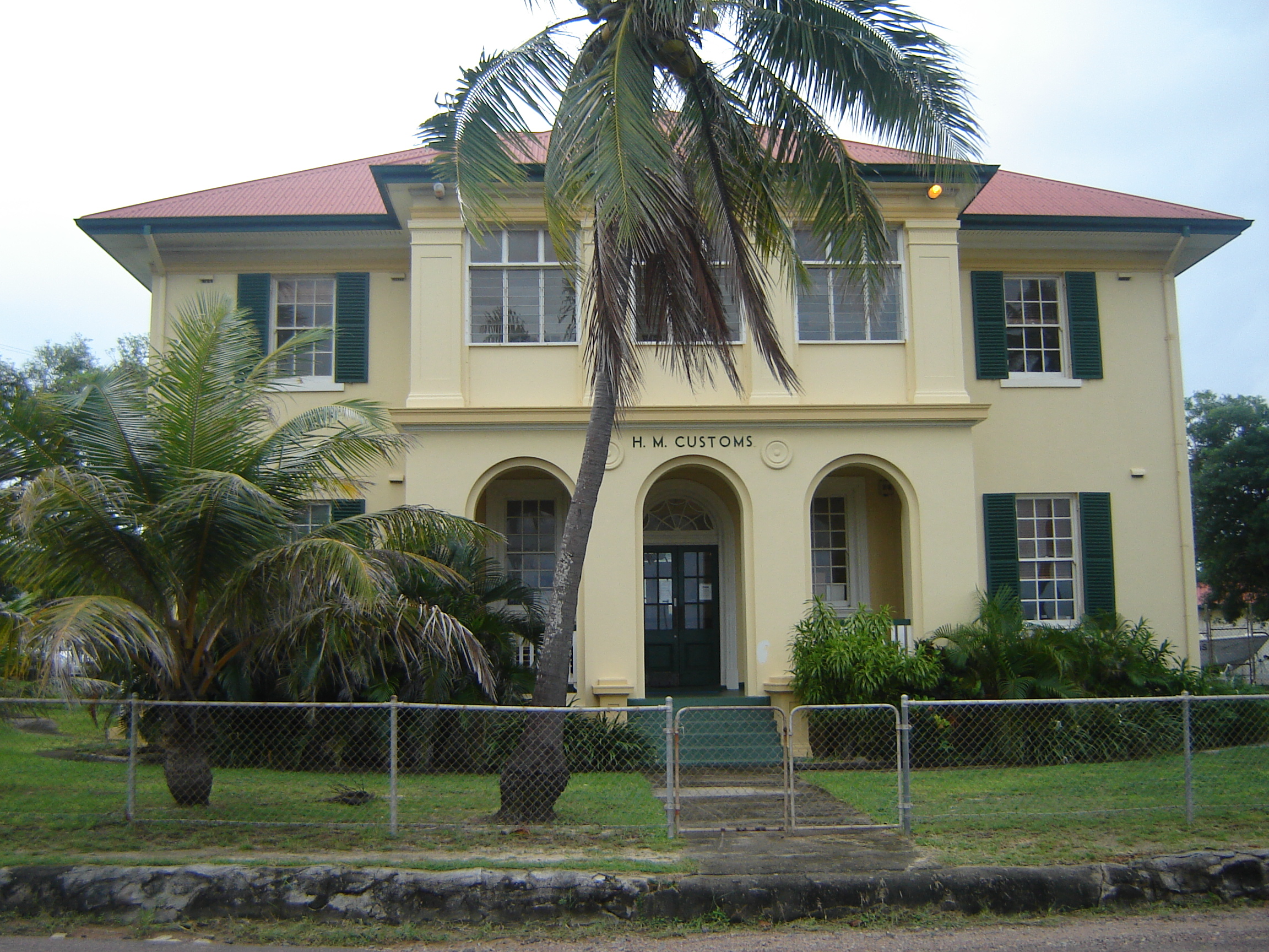 Customs House on Thursday Island. Photo taken by Ben Lewes W.